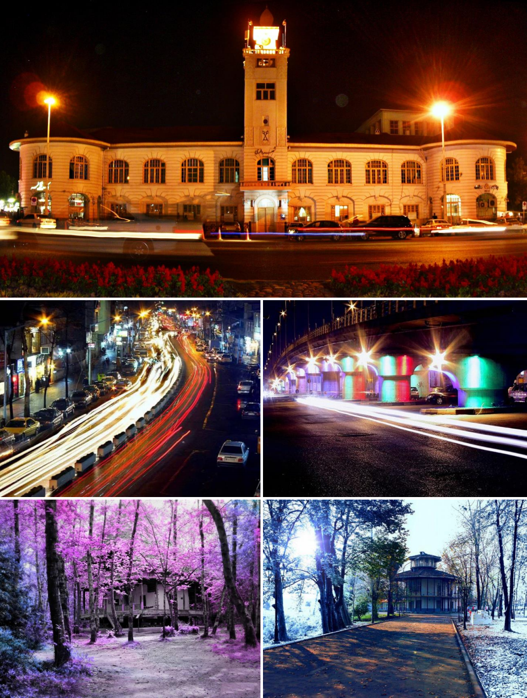 A montage of pictures about Rasht city.